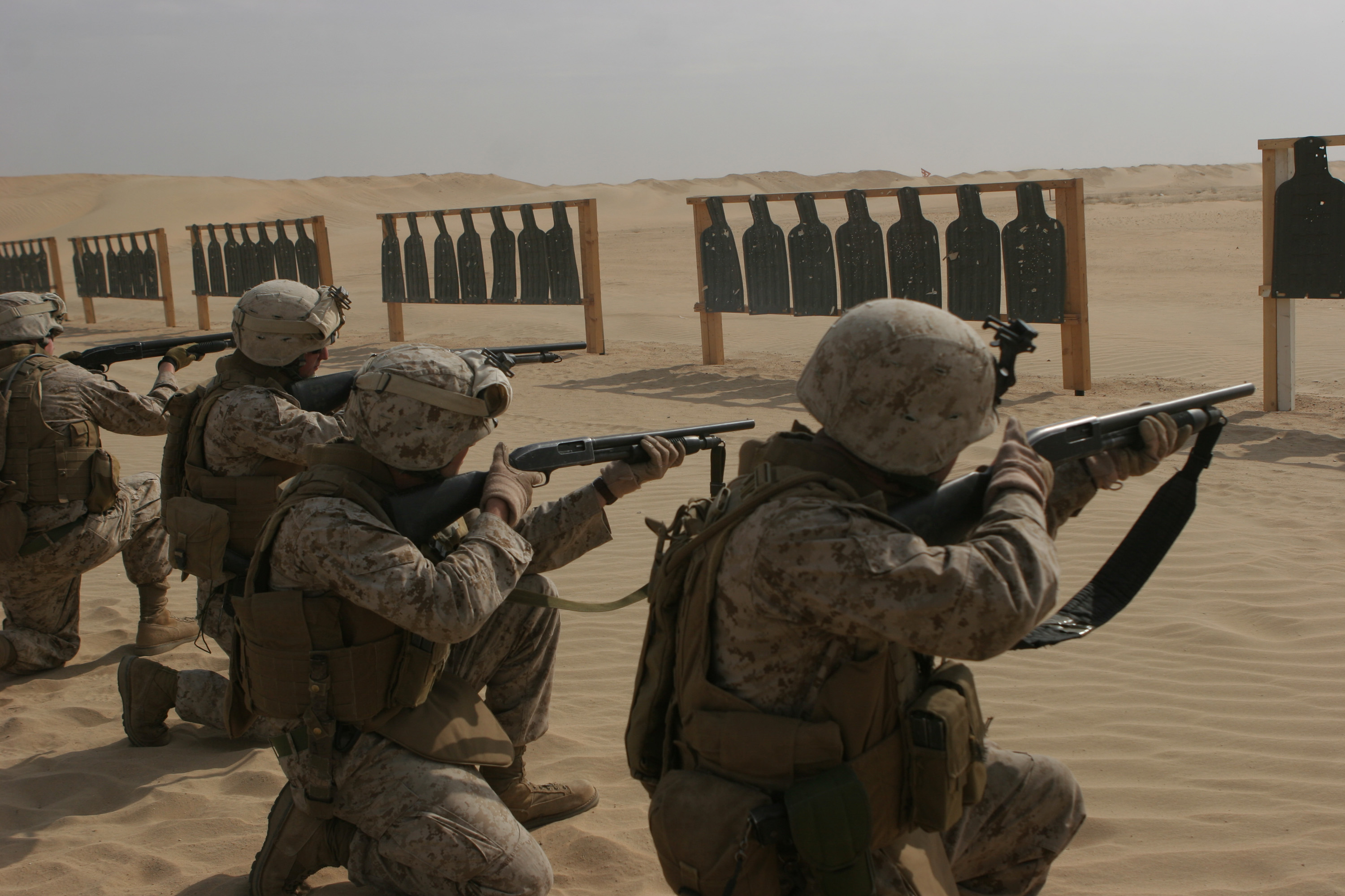 Marines of Golf Company, Battalion Landing Team 2/6, 26th Marine Expeditionary Unit, fire the Mossberg 500 12-gauge shotguns while conducting sustainment training at Camp Beuhring, Kuwait, Jan. 1, 2009. The 26th MEU is currently deployed to the U.S. Central Command Area of Operation as part of its 2008-2009 deployment. (Official USMC photo by Cpl. Patrick M. Johnson-Campbell) (Released)